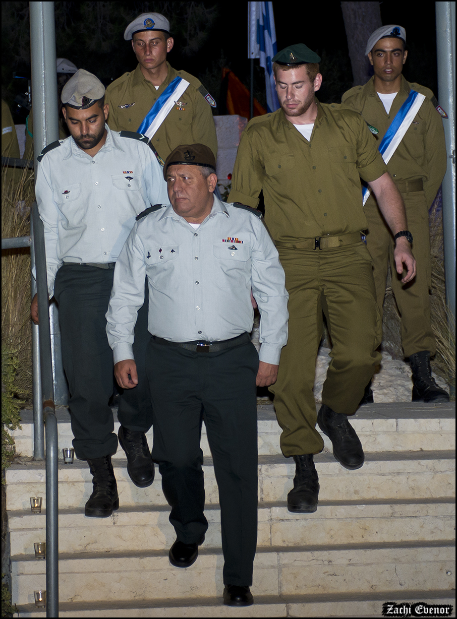 IDF Chief of Staff General Gadi Eizenkot, Israel Combat Engineering Corps Annual Commemoration Ceremony, 13 September 2016, Israel